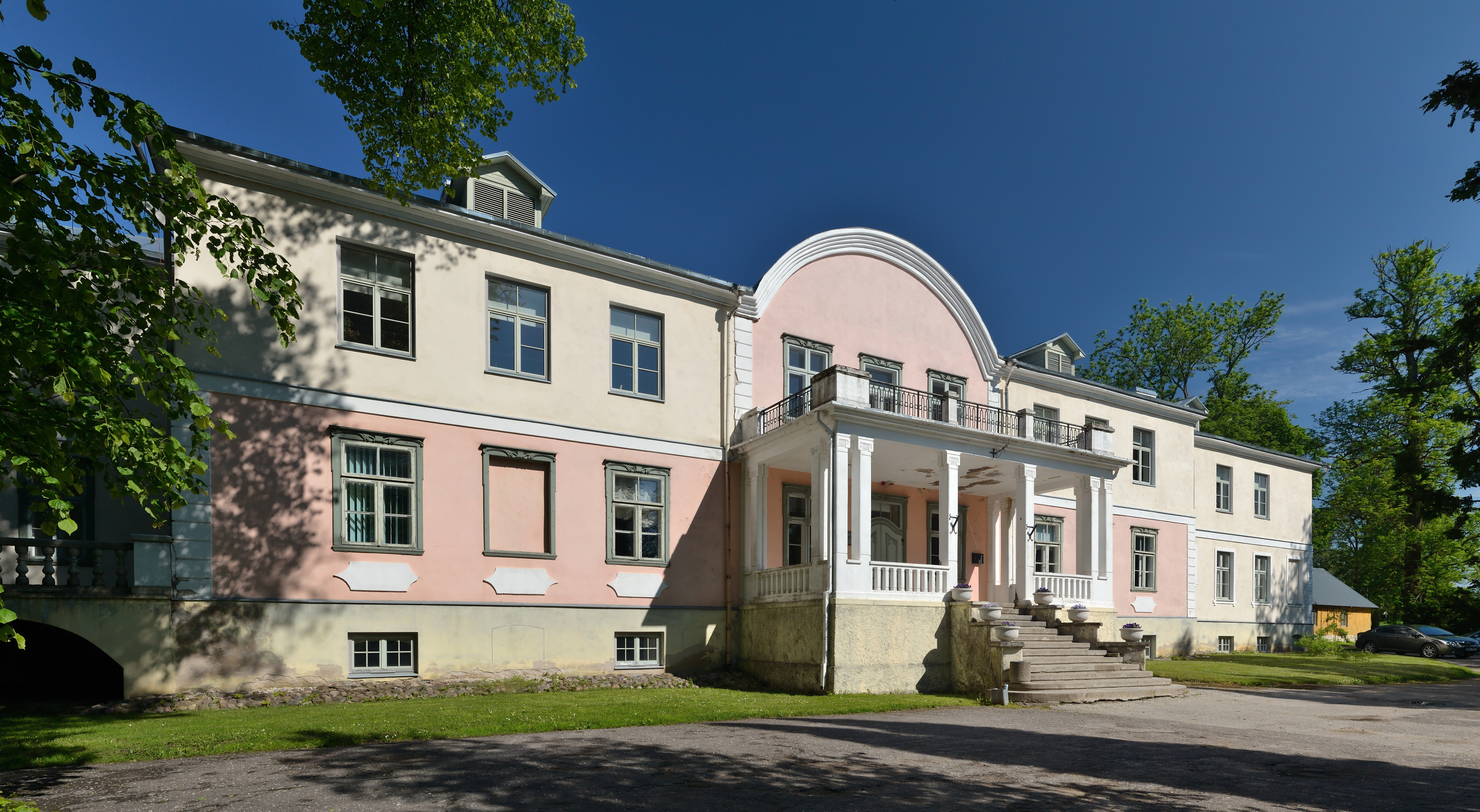 Luua manor main building